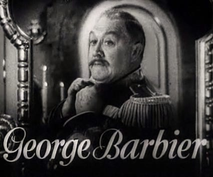 George Barbier in The Merry Widow - trailer (cropped screenshot)